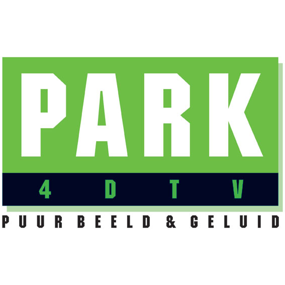 First Logo of park4dtv